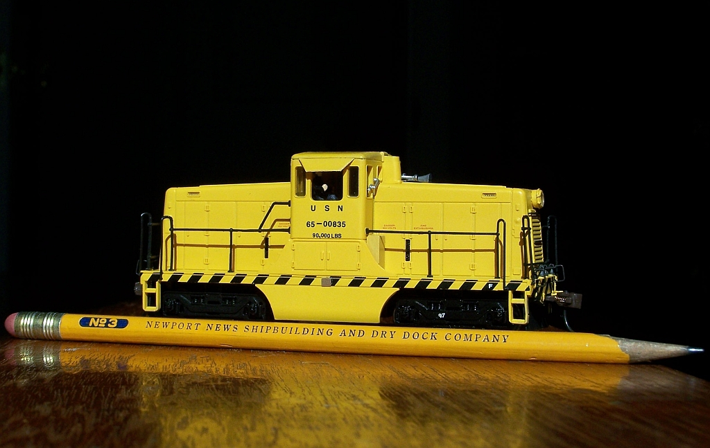 HO Scale GE 44-ton switcher made by Bachmann, shown with a pencil for scale. Before modification it is all yellow with safety stripes at the bottom and a dark gray roof. I modified it by repainting the roof yellow and adding the lettering with Woodland Scenic dry transfer decals. "USN 65-00835" is a fictional engine number; however it was modeled after the prototypical navy style, similar to the center cabs at Norfolk Naval Shipyard. I also added a builder's plate below the cab and "97" on the trucks to indicate the last time the brakes were replaced was 1997.